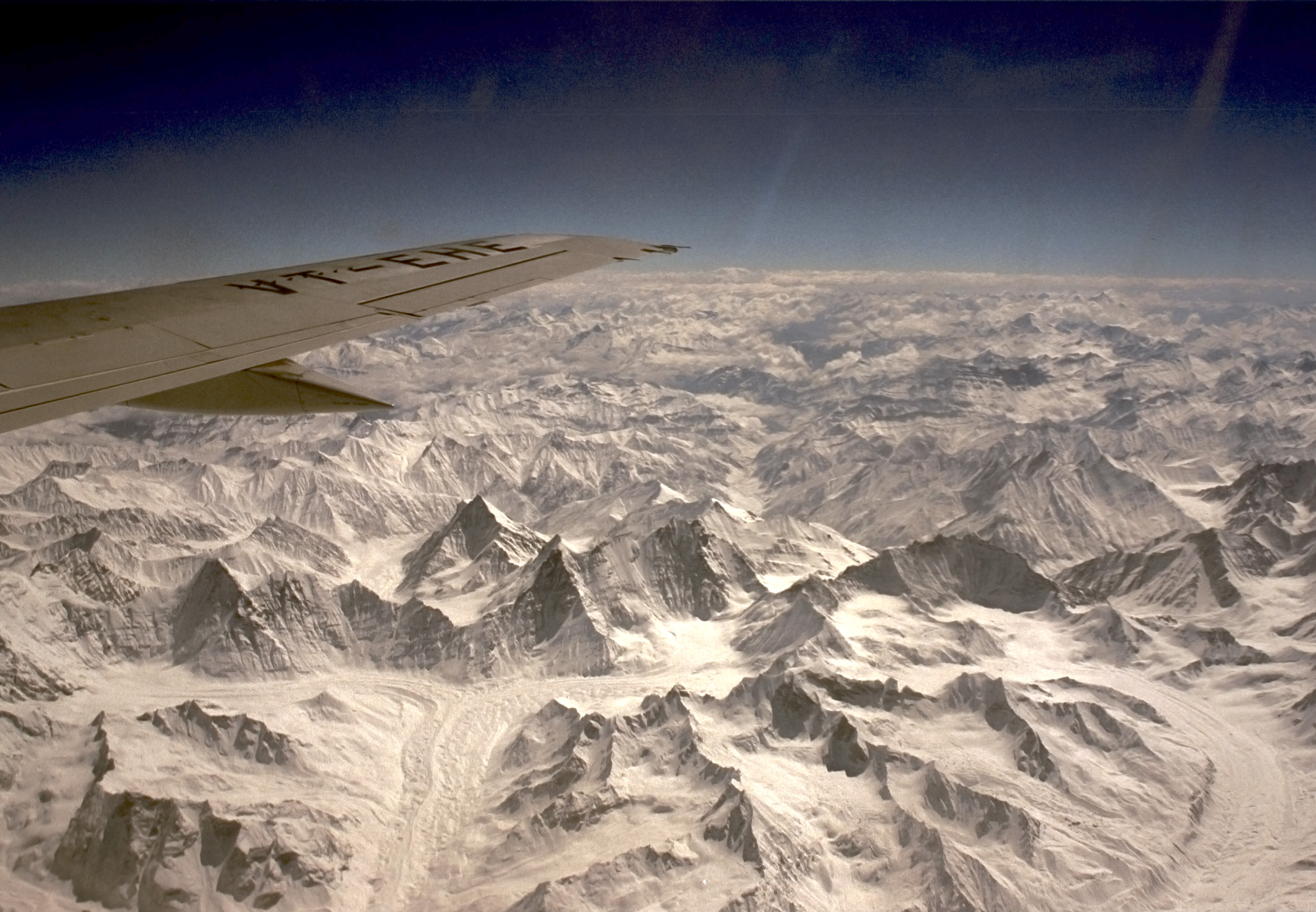 A photo of Himalayan mountains from air. Near K2, Pakistan